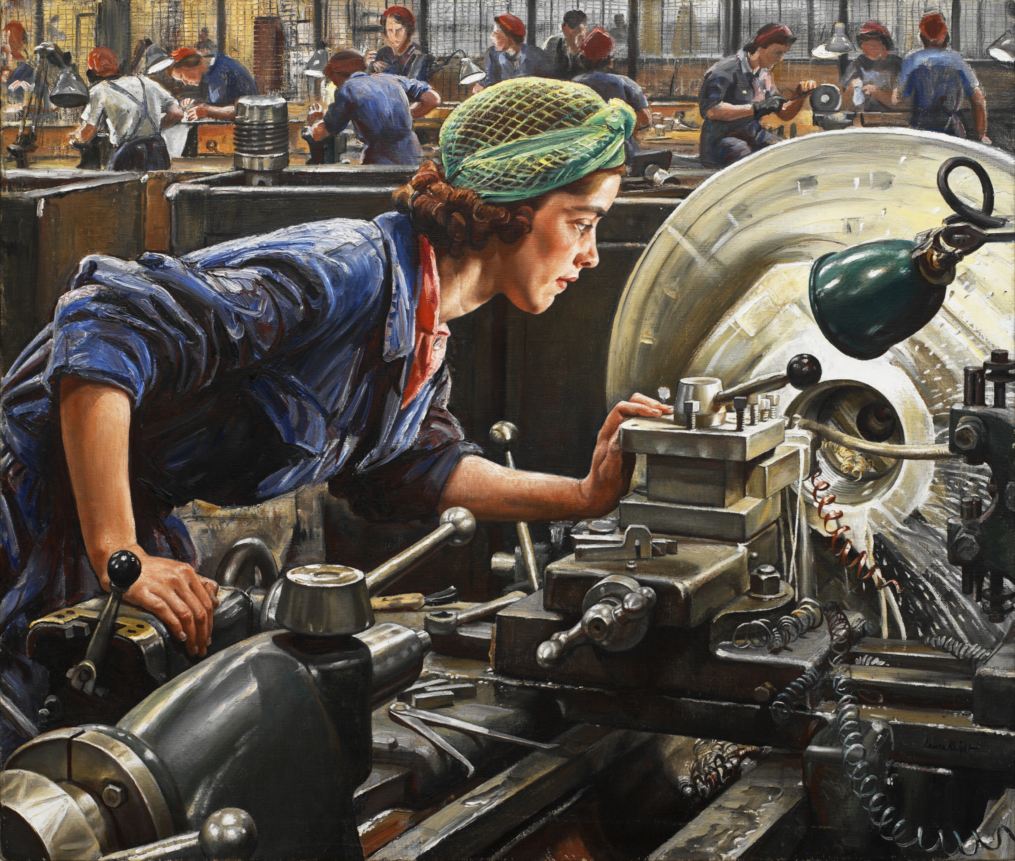 A young factory worker in blue overalls is shown at work on a industrial lathe, cutting and turning the breech-ring component of a Bofors anti-aircraft gun. Other factory workers are visible in the background.